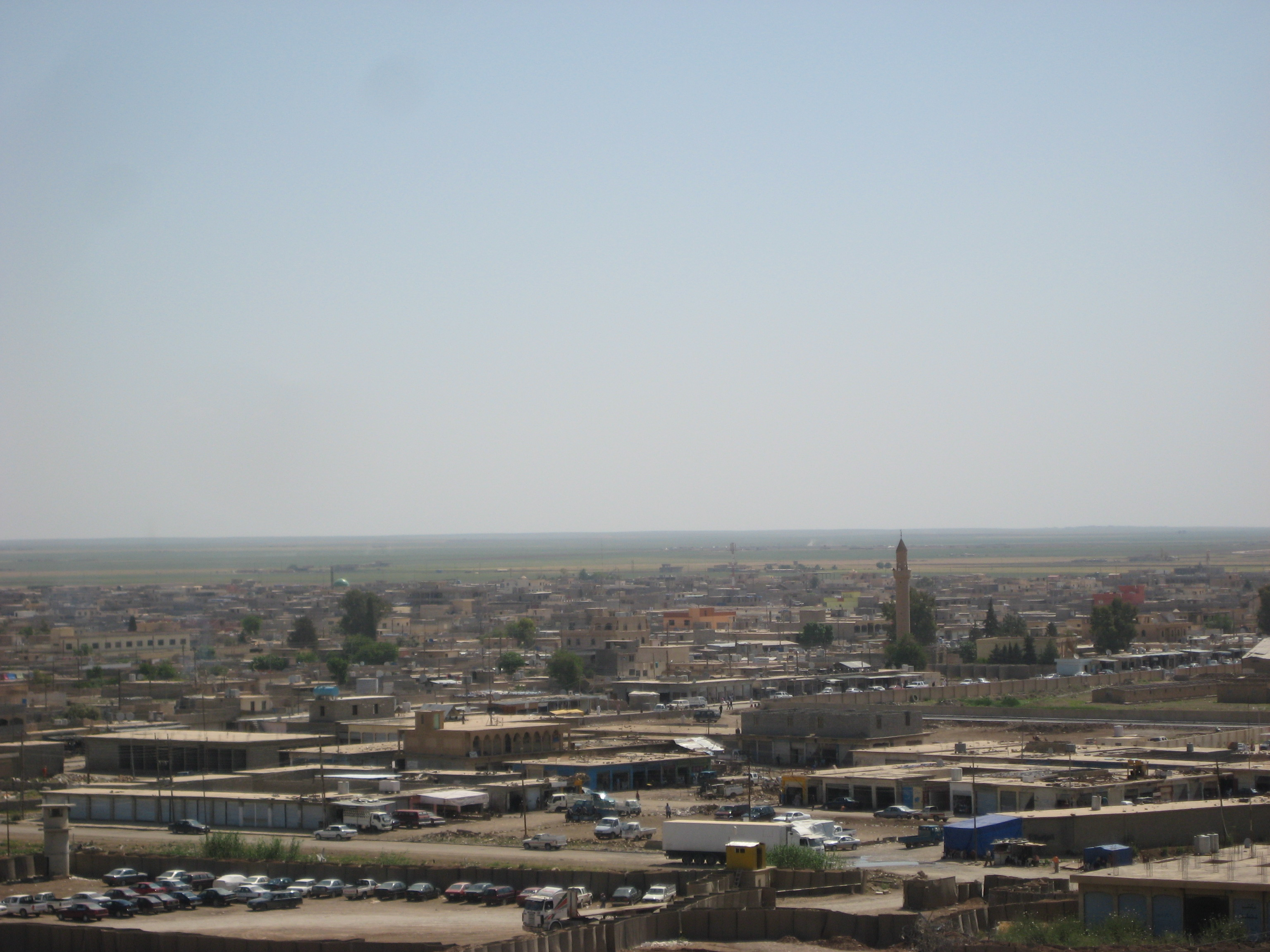 View of the eastern portion of Rabia, Iraq.